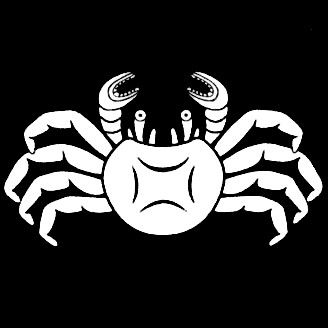 Crest of Terasawa clan